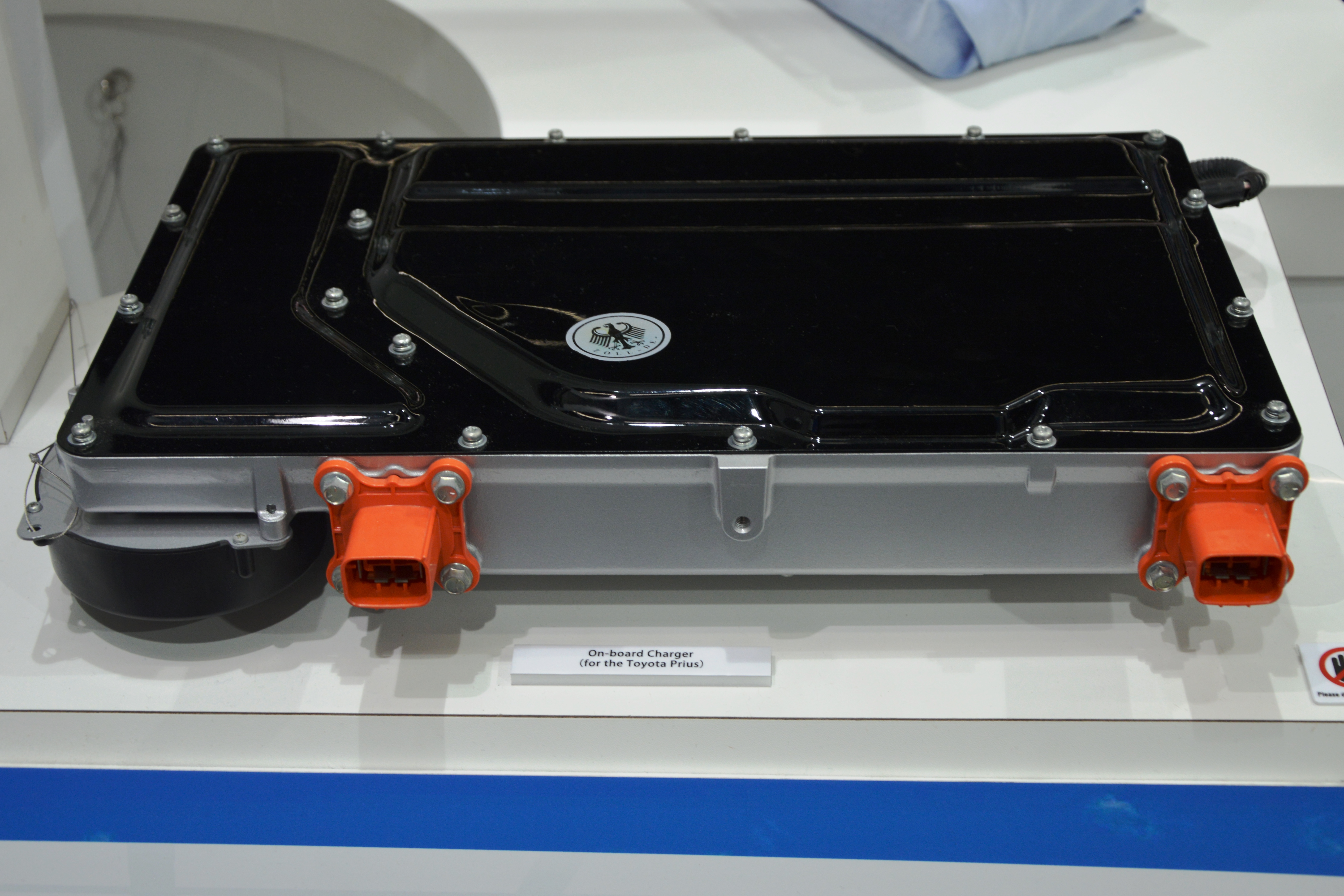 Plug-in hybrid vehicle (PHV) - on board charger for Toyota Prius. Max. output: 2 kW (@AC200V). Rated input voltage: AC 100 ~ AC240V. Charging the battery voltage: 288~400V. Volume:8.6 L. Photo taken at exhibition IAA 2015 in Frankfurt, Germany.